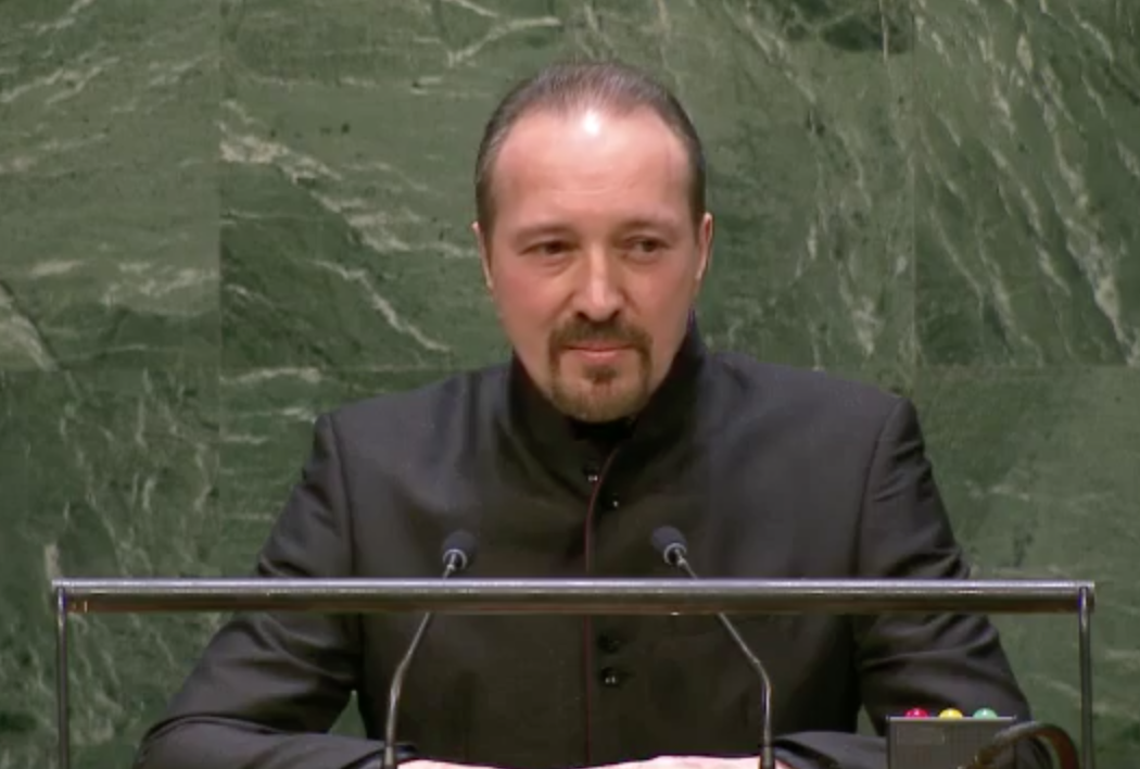 H.E. Ambassador Angelo A Toriello at the General Assembly hall at UN, New York, giving a speech for the International Day of Yoga's resolution promoted by the Permanent Mission of India to the UN.